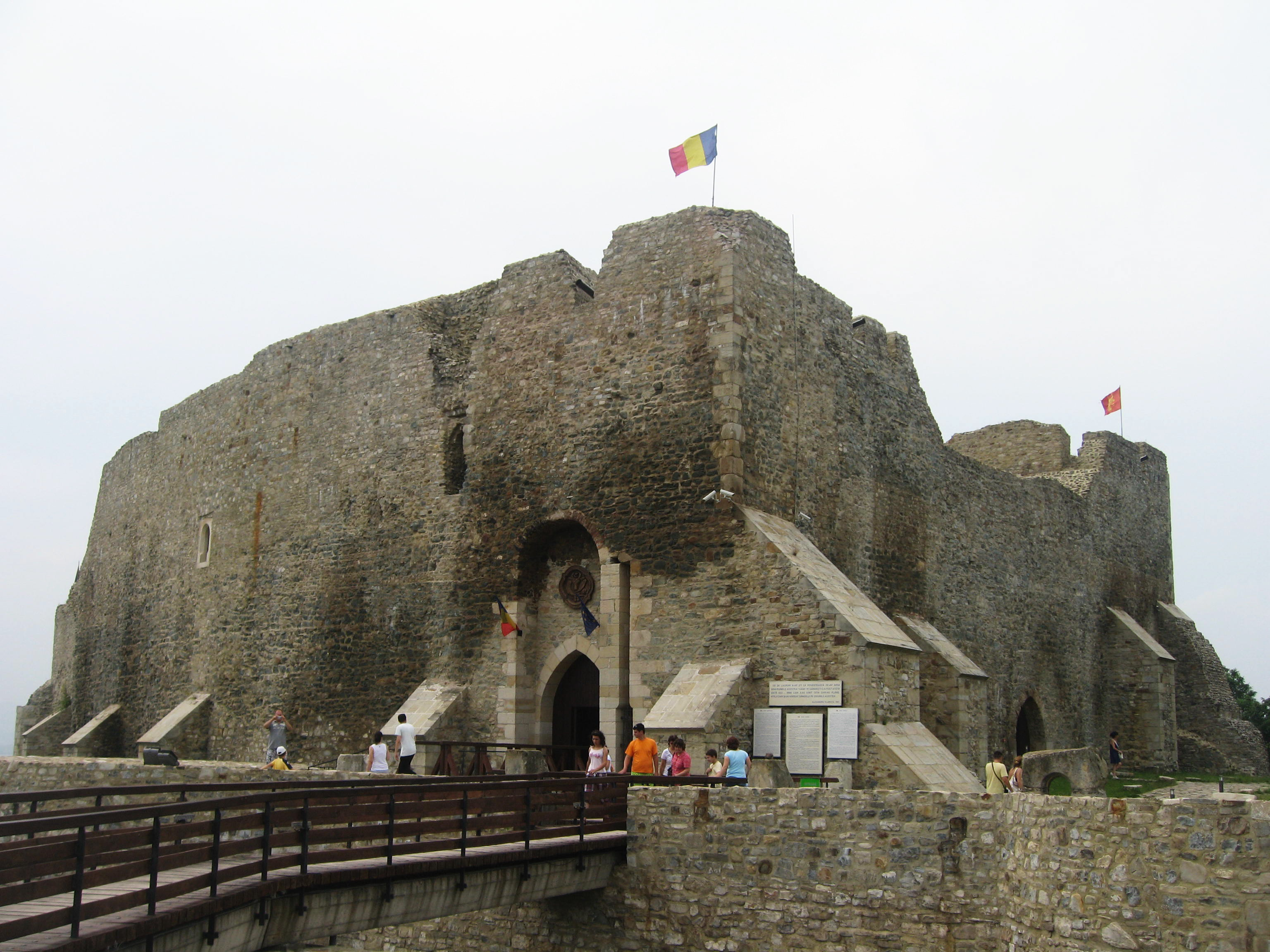 Neamț Citadel